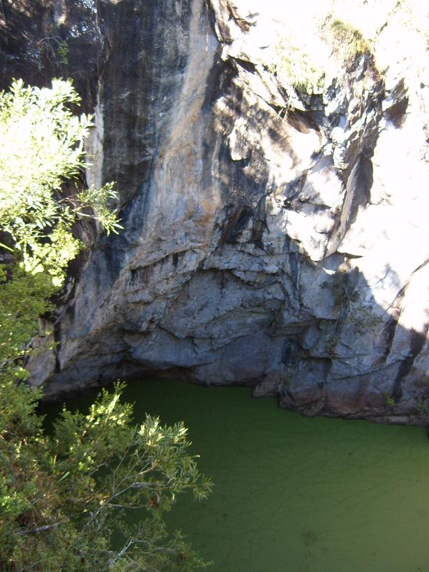 The Crater - Hypipamee National Park, Atherton Tableland, Queensland, Australia This is the surface crater of a volcanic pipe or diatreme about 100m across. Its sheer walls have a water pool at the bottom. The pipe turns at a depth of some 80m underwater and tracks towards other volcanic formations in the region.